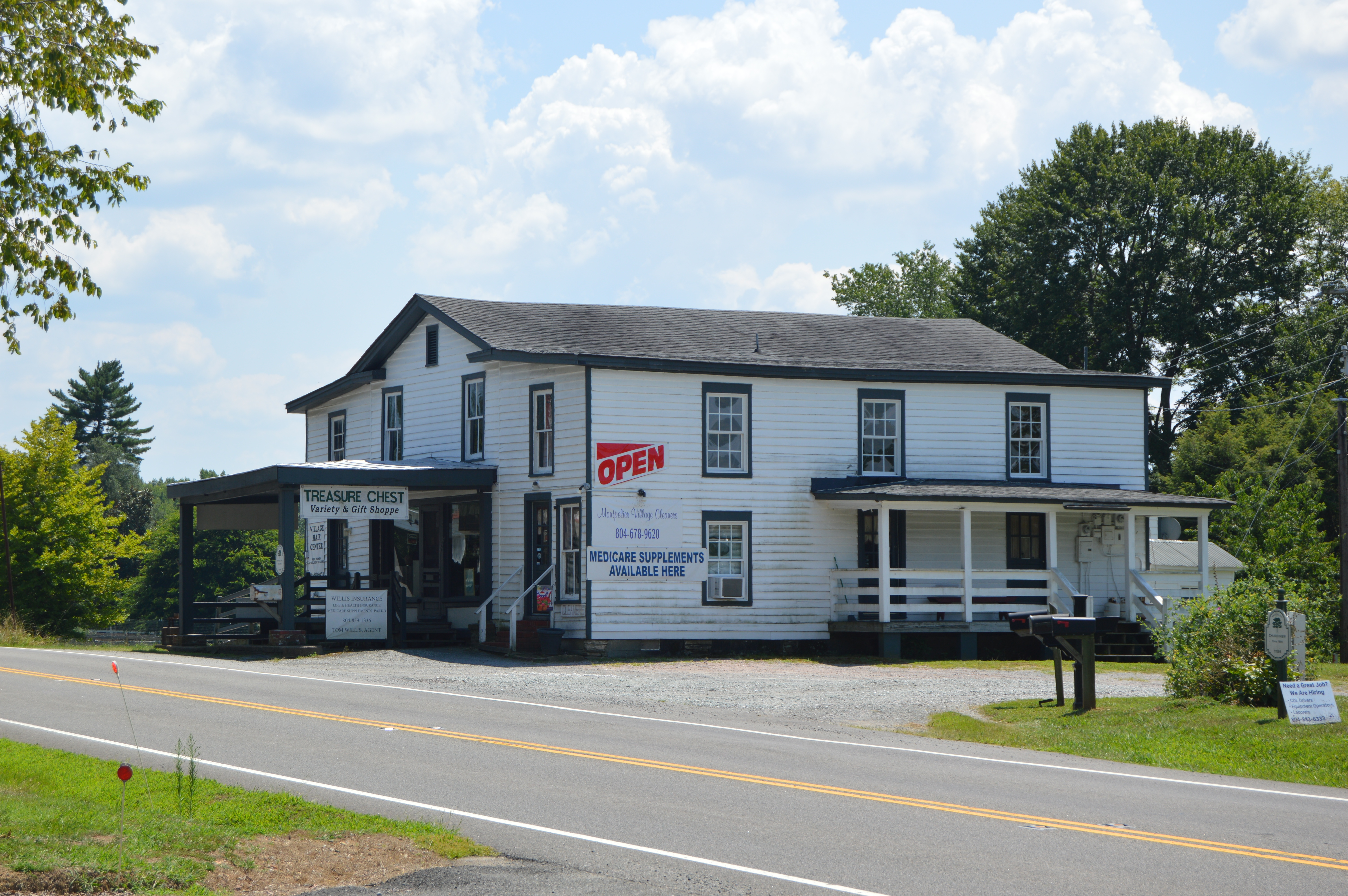 Northern side and front of a commercial building along U.S. Route 33 in Montpelier, Virginia, United States. It is part of the Montpelier Historic District, a historic district that is listed on the National Register of Historic Places.